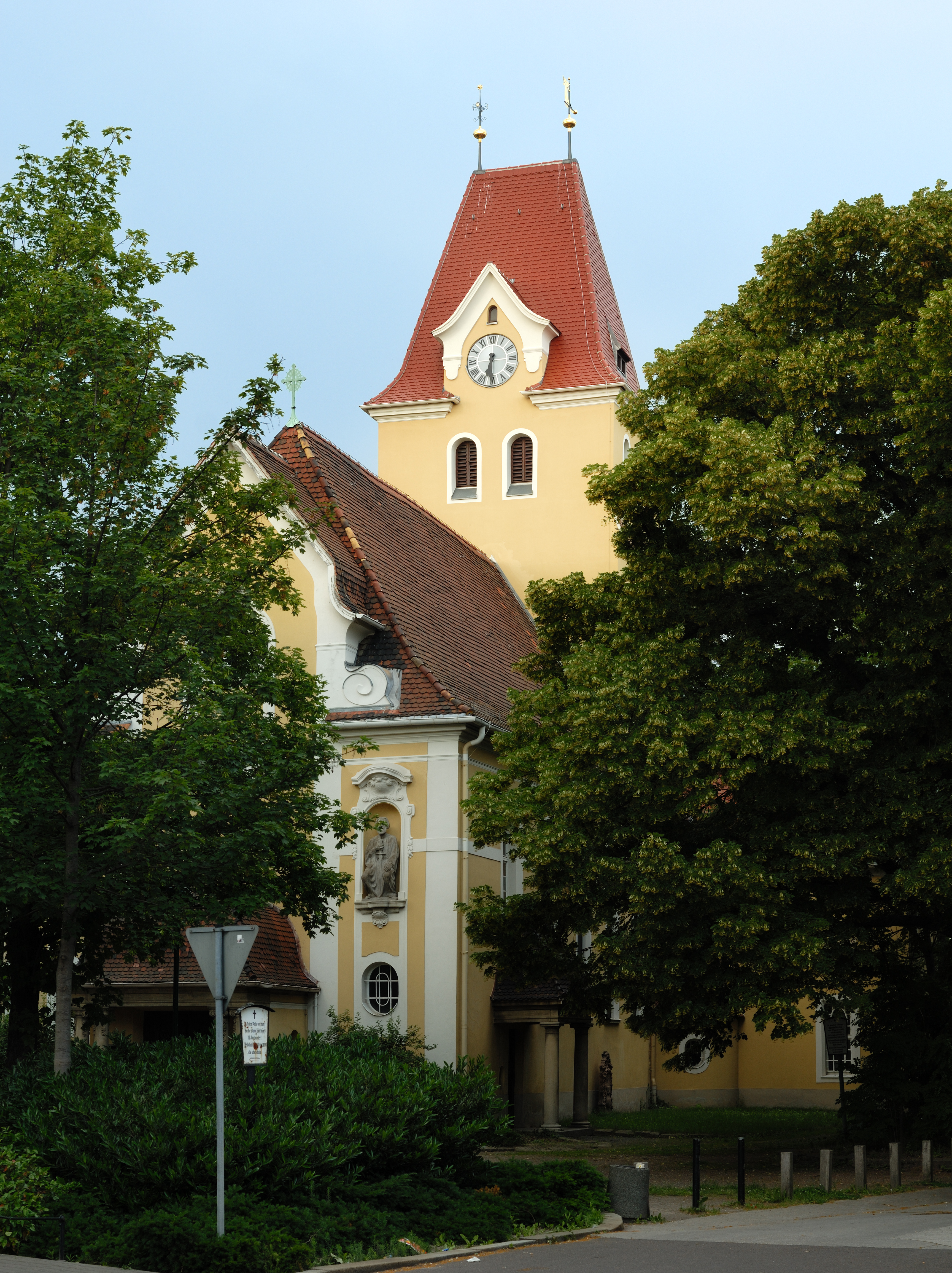 This image shows the Apostelkirche ("Apostle church") in Leipzig, Germany. It is a two segment panoramic image.